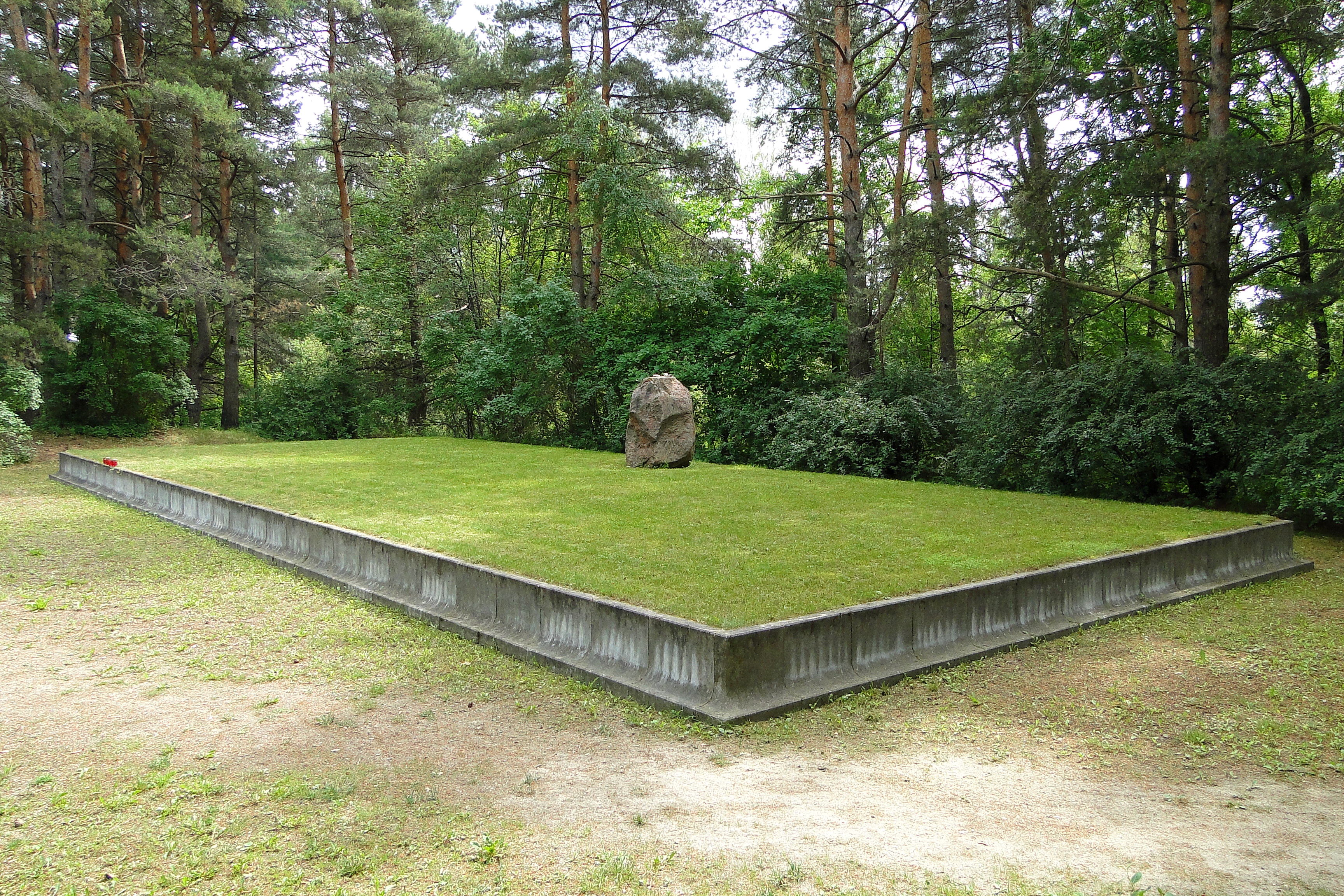 Mass Grave of Jews in Rumbula Forest - Holocaust Site - Riga - Latvia - 01